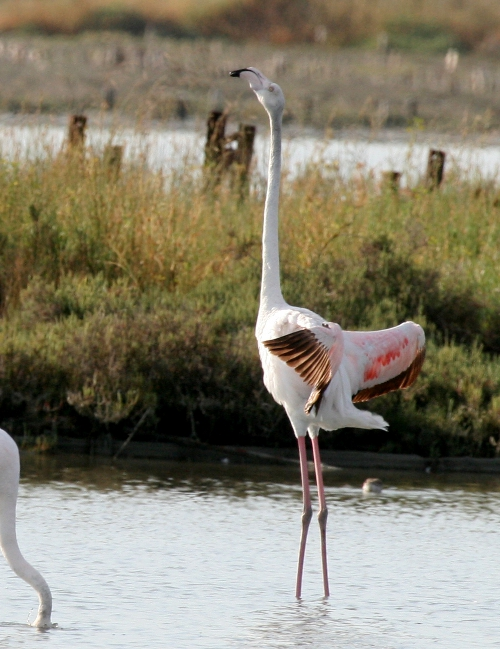 Phoenicopterus roseus in Corfu